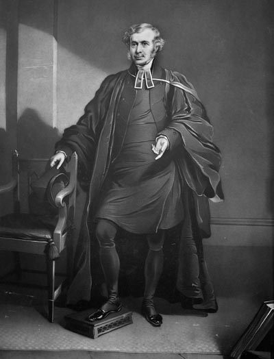 Portrait of Richard Parkinson (1797–1858), English clergyman.